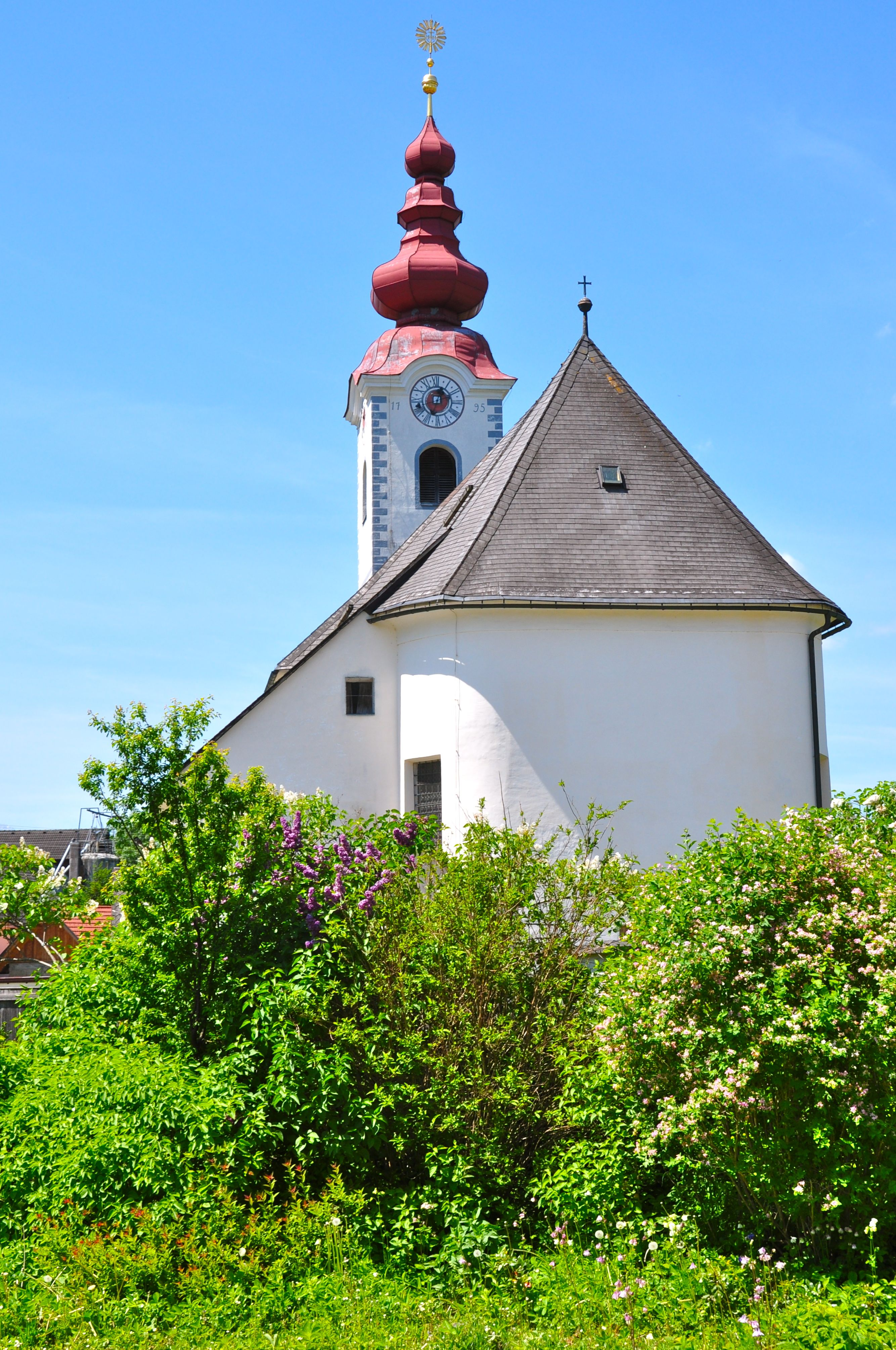 Parish church Saint Zeno in Kappel on Drava, municipality Ferlach, district Klagenfurt Land, Carinthia, Austria, EU